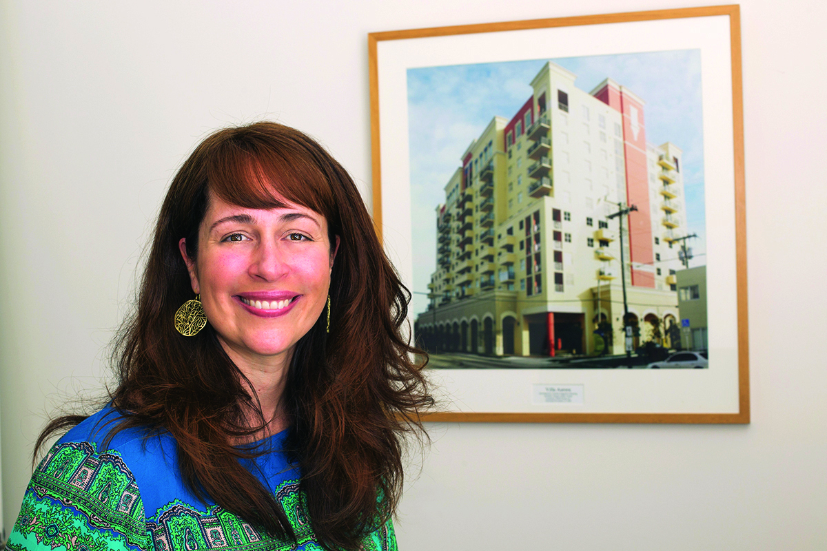 Stephanie Berman-Eisenberg, Carrfour Supportive Housing, President/CEO, Miami, Florida